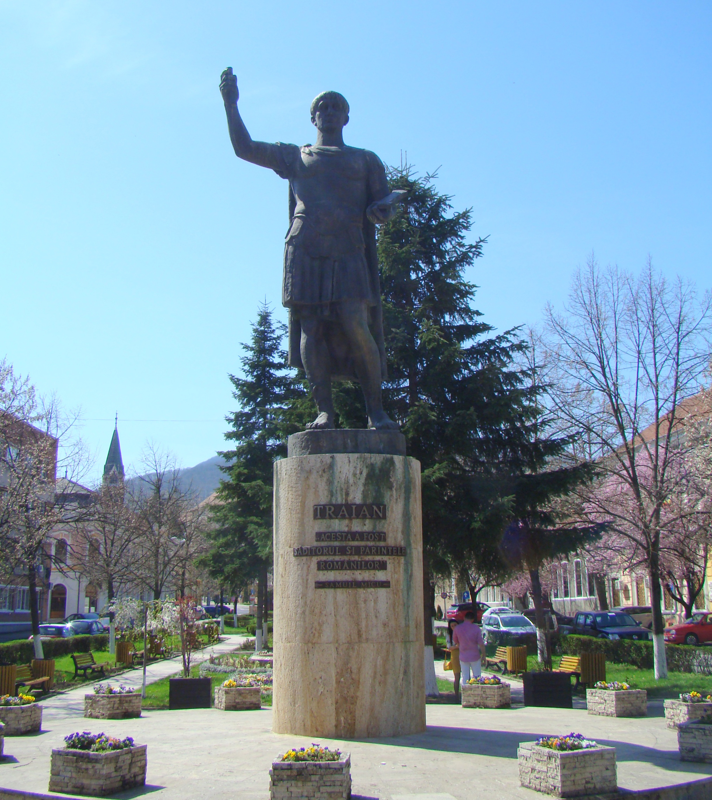 Unirii Square in Deva, Hunedoara county, Romania